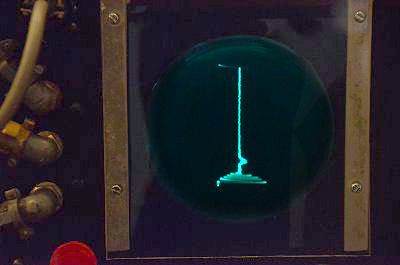 This image shows a simulated trace on a WWII-era ASV Mark II radar system. The trace starts at the bottom of the display and moves towards the top, with signals from reflections causing the beam to deflect to the left or the right depending on which of two antennas it was received on. In this case we see a target about nine miles distant to the right of the aircraft. At the bottom, the triangular pattern is caused by reflections off the water near the aircraft, obscuring any target within about 1000 feet of the aircraft.